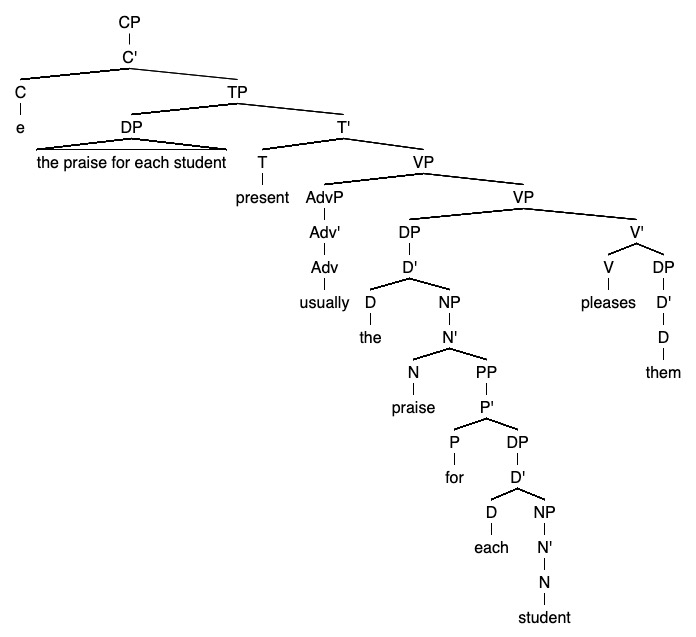 Ungrammatical sentence- quantificational binding